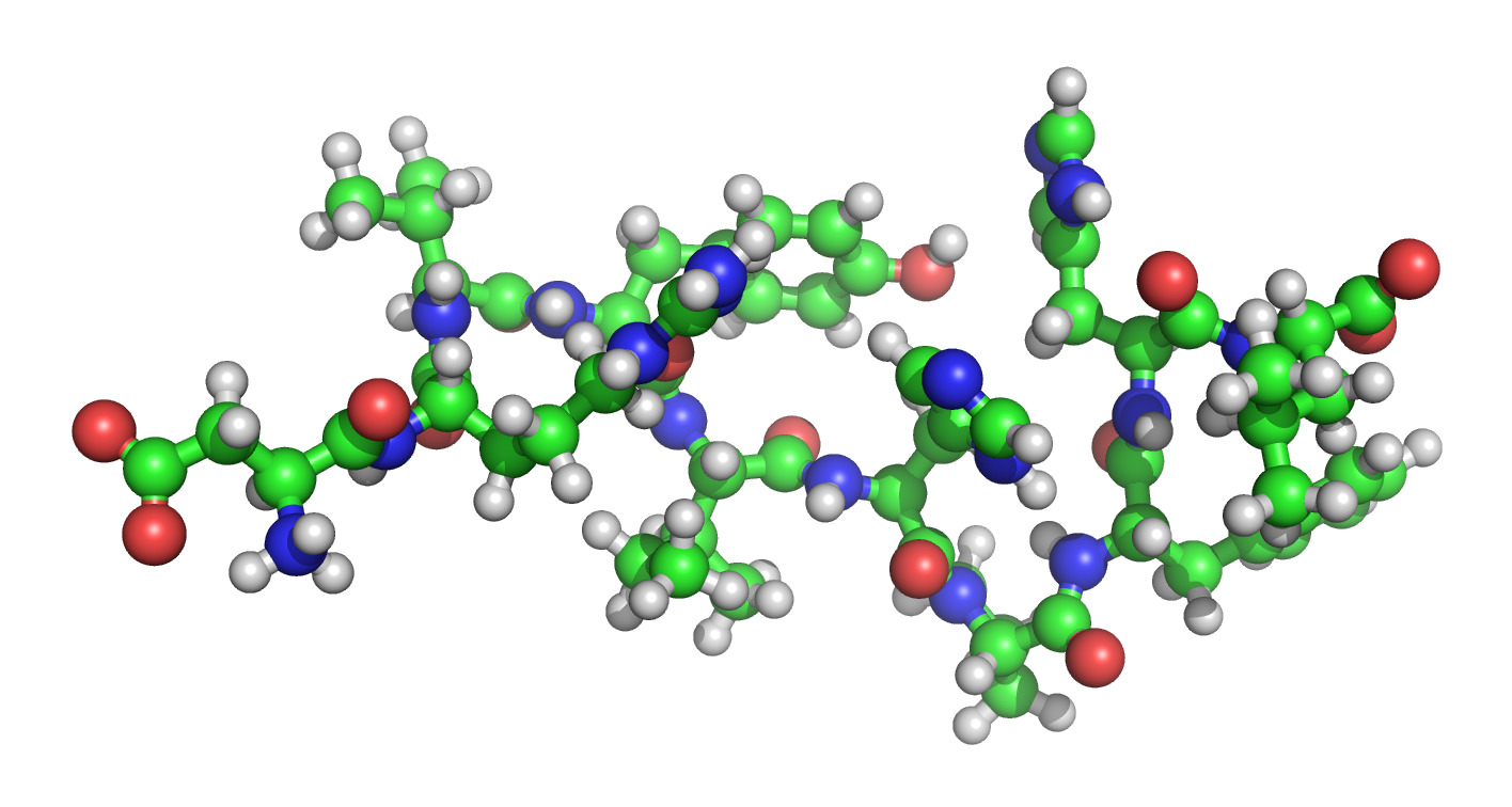 ball and stick model of angiotensin 1 from PDB 1N9U. Ref.: G.A.Spyroulias et al. (2003). Comparison of the solution structures of angiotensin I & II. Implication for structure-function relationship.. Eur J Biochem, 270, 2163-2173. PMID 12752436 [